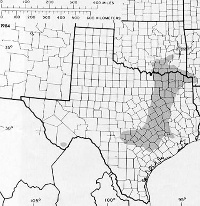 Natural range of Osage-orange.